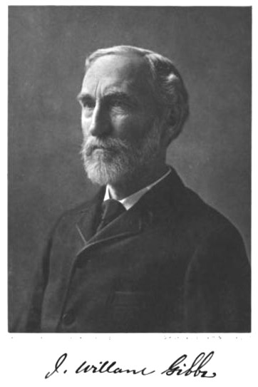 Picture of physicist J. Willard Gibbs